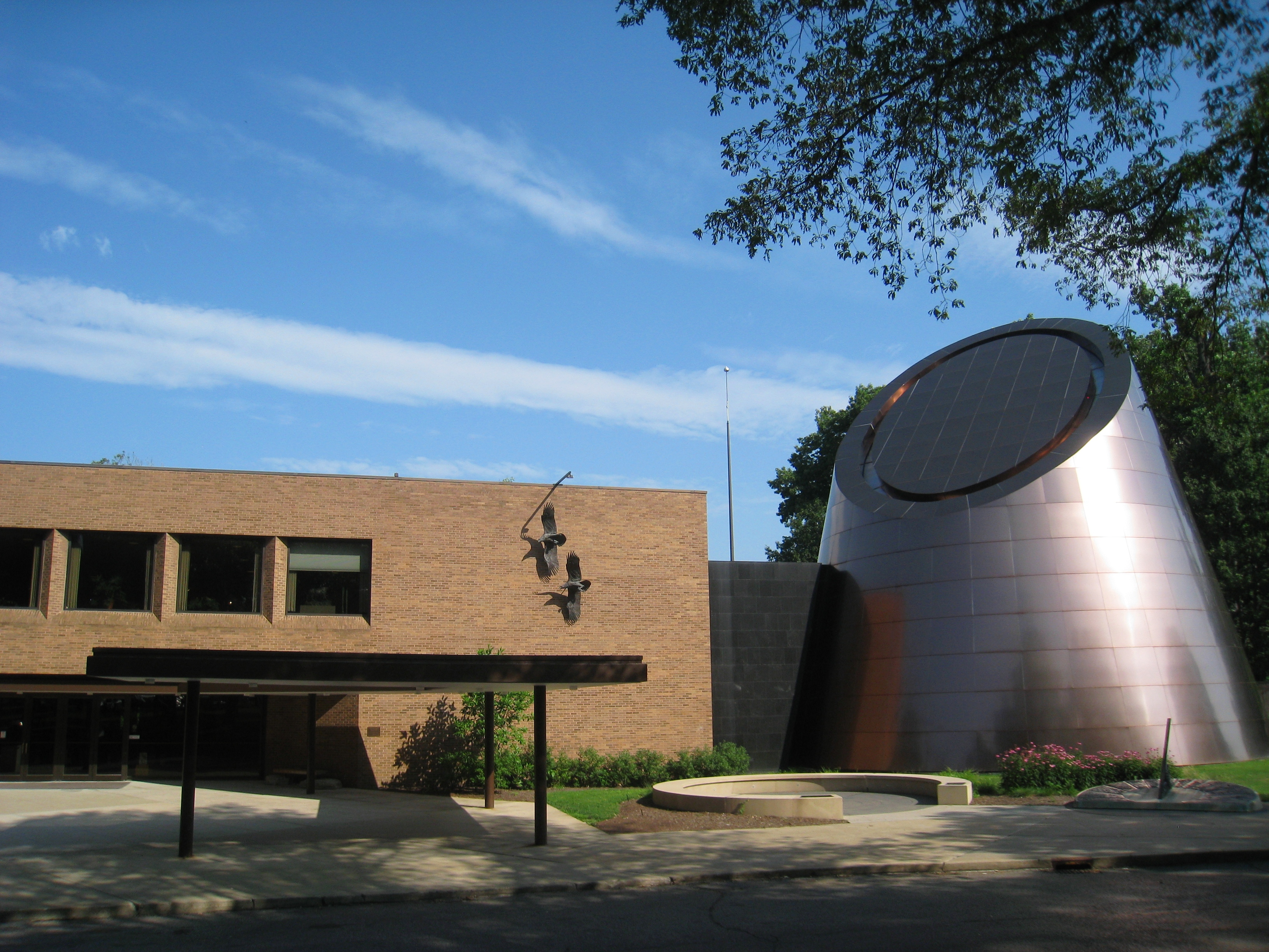 Entry - Cleveland Museum of Natural History, Cleveland, Ohio, USA.